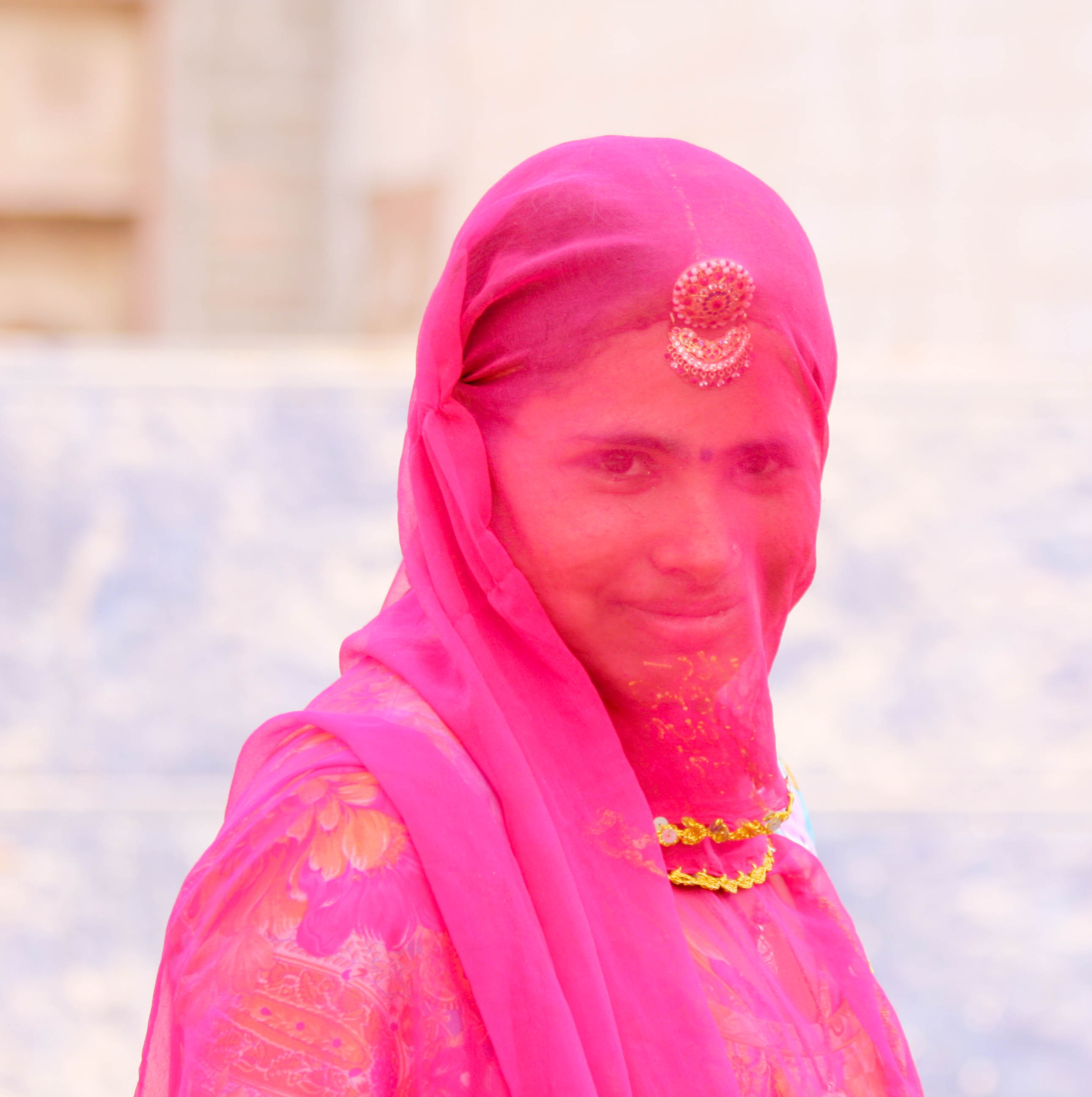 A woman wearing a traditional casual dress in Jodhpur, Rajasthan (north India). The veil scarf is often a means to protect the face from dust, sand.